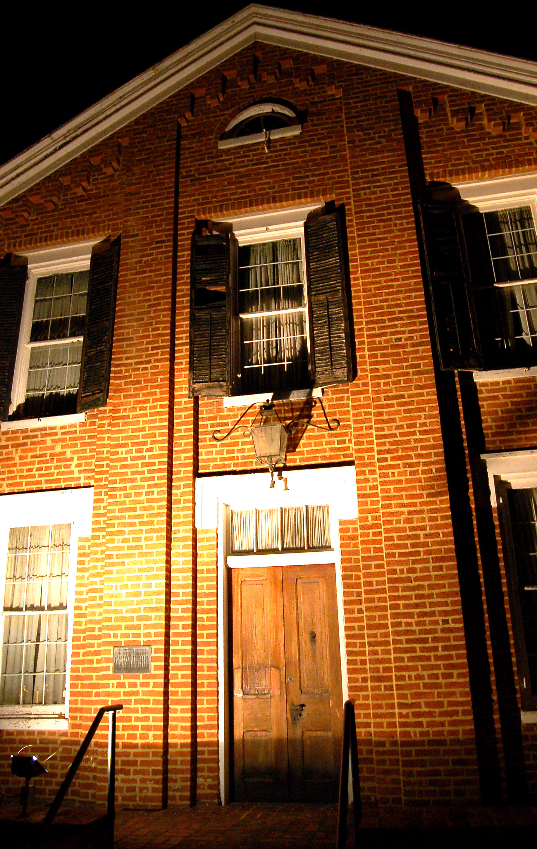 Romney WV